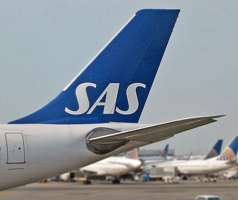 Sas Airbus A330 tail at Newark.